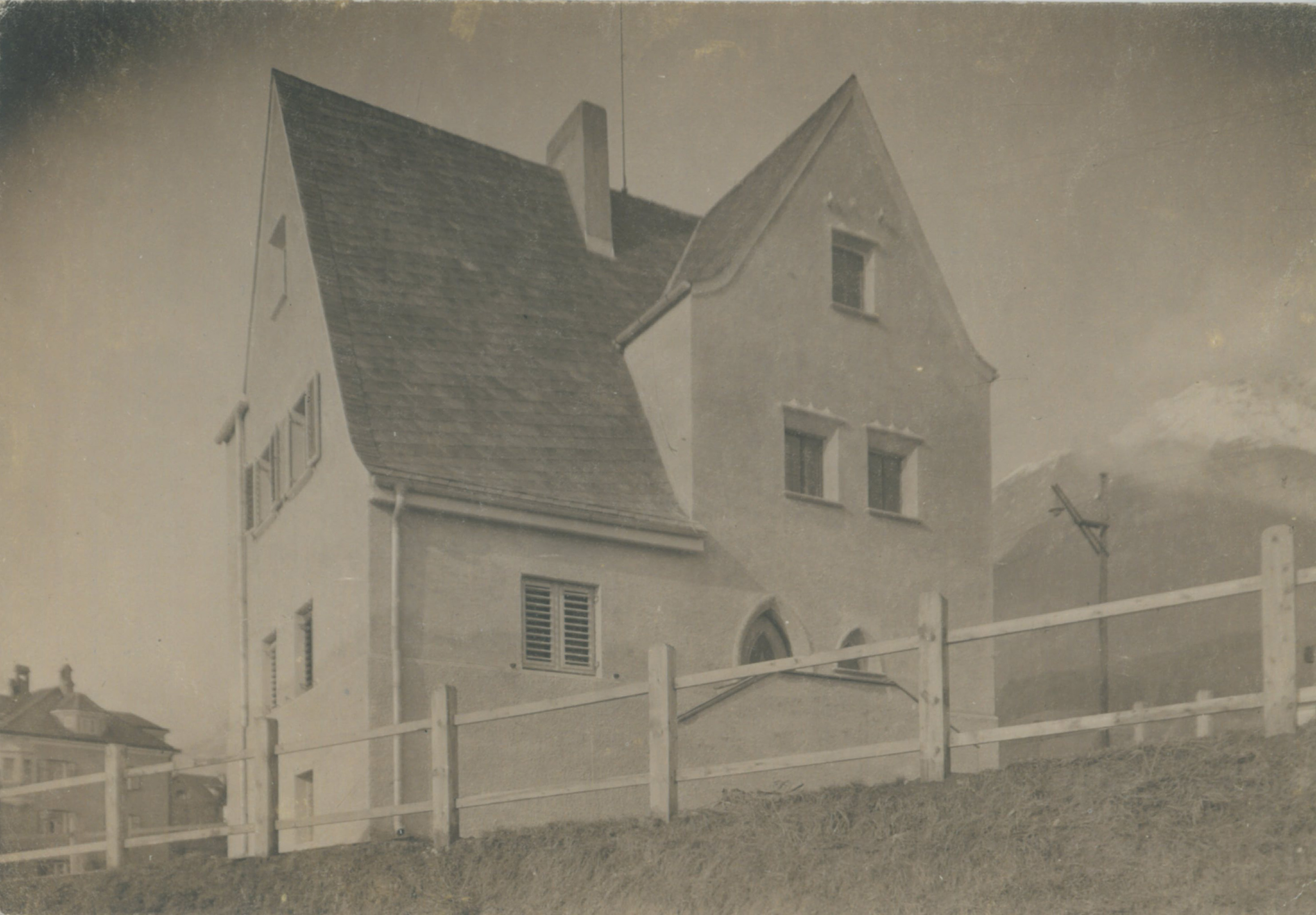 Housing project „Walter“, Sonnenstraße, Innsbruck This media shows the remarkable cultural object in the Austrian state of Tyrol listed by the Tyrolean Art Cadastre with the ID 121859. (on tirisMaps, pdf, more images on Commons, Wikidata)